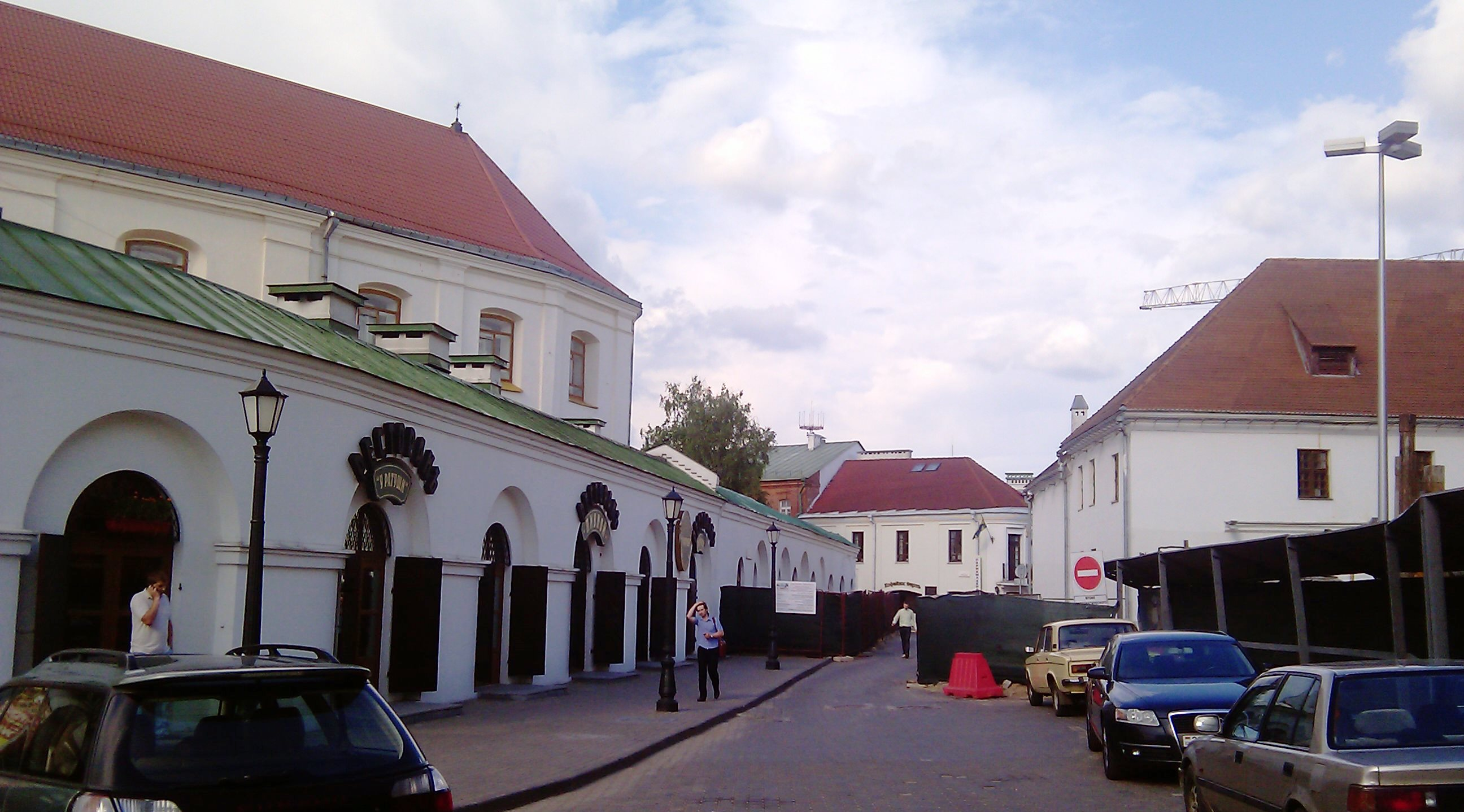 Freedom square in Minsk